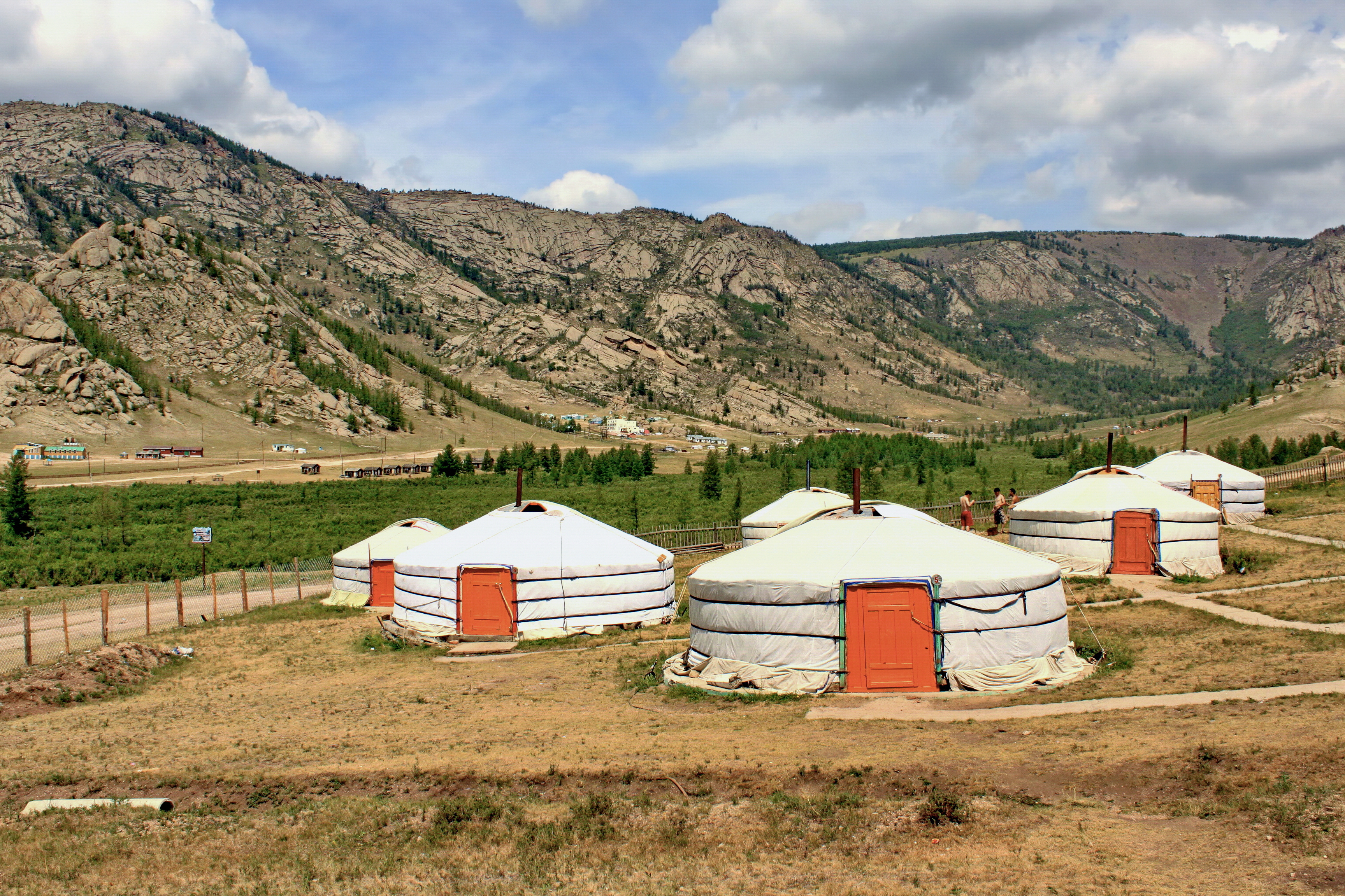 Yurts. Gorkhi-Terelj National Park. Mongolia.